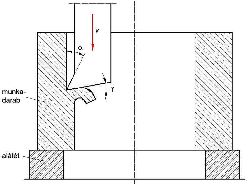 Carving (Metal machining) Vésés (Fémmegmunkálás)